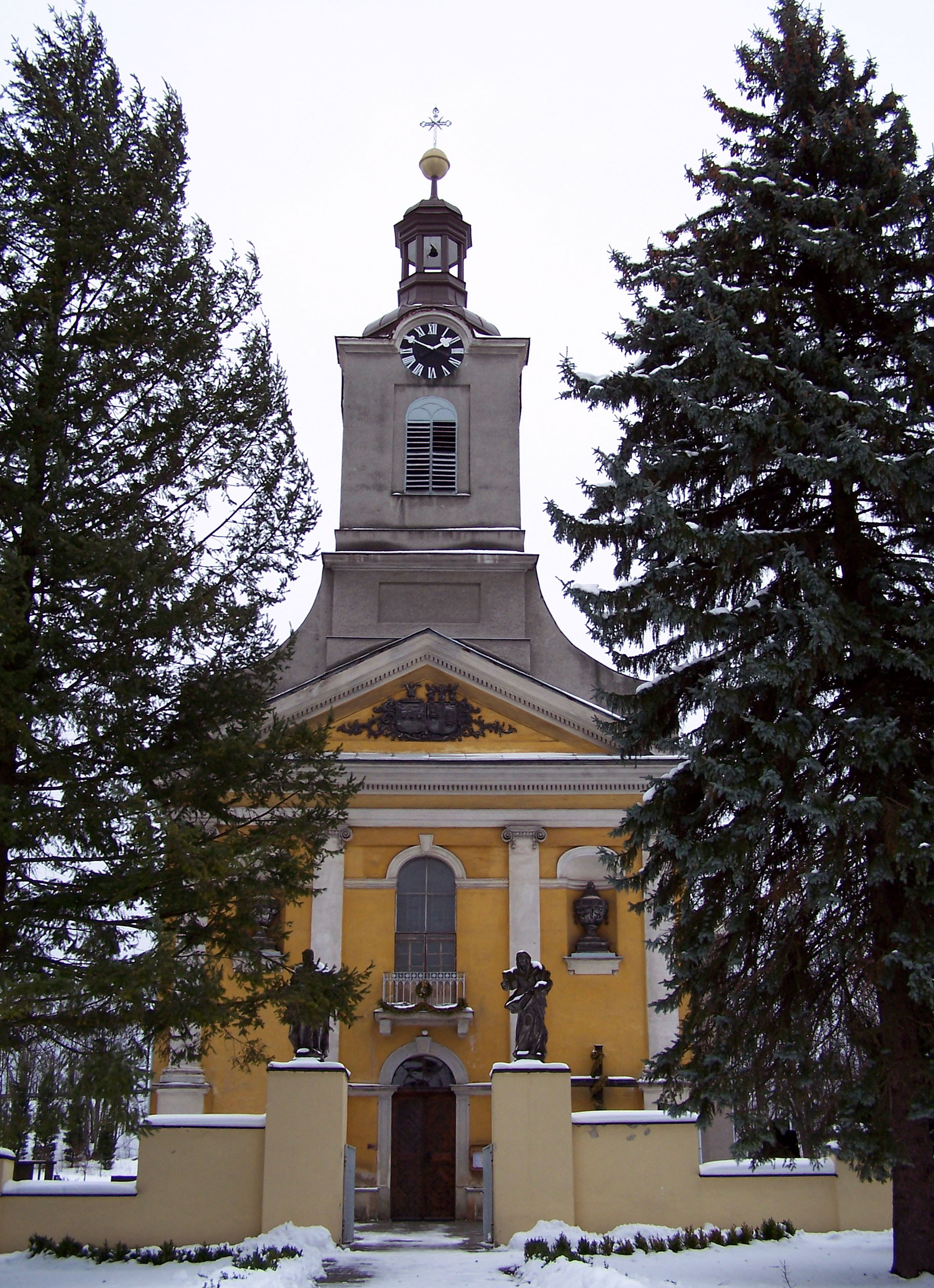 Annunciation of Virgin Mary Church in Ropice (Ropica), Czech Republic